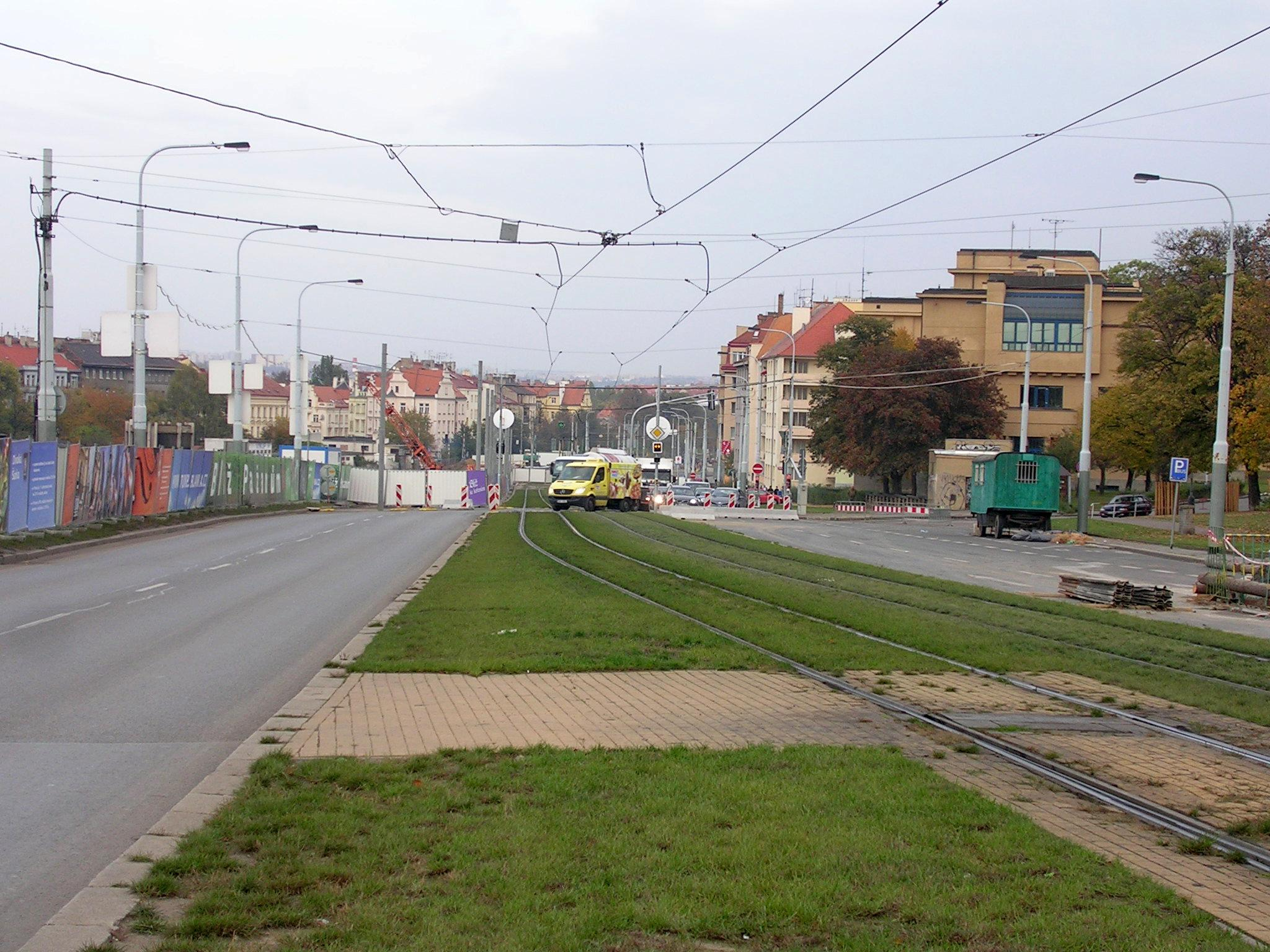 Dejvice and Hradčany, Prague, the Czech Republic.